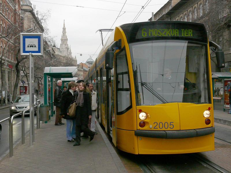 The Erzsébet Boulevard in Budapest, tram stop